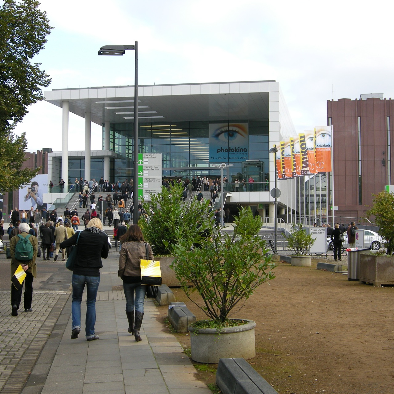 South Entrance of the Cologne Trade Fair during Photokina 2008